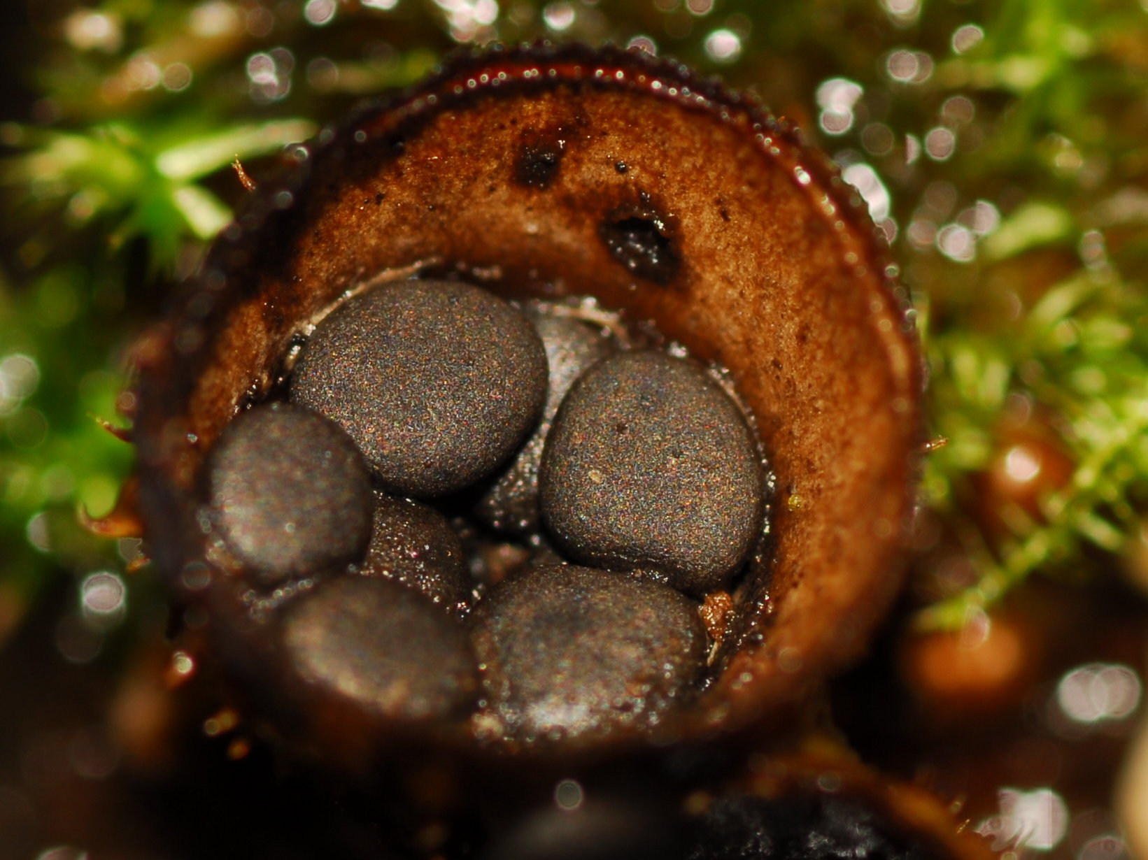 Closeup of the fruiting body of the "dung-loving bird's nest fungus" Cyathus stercoreus